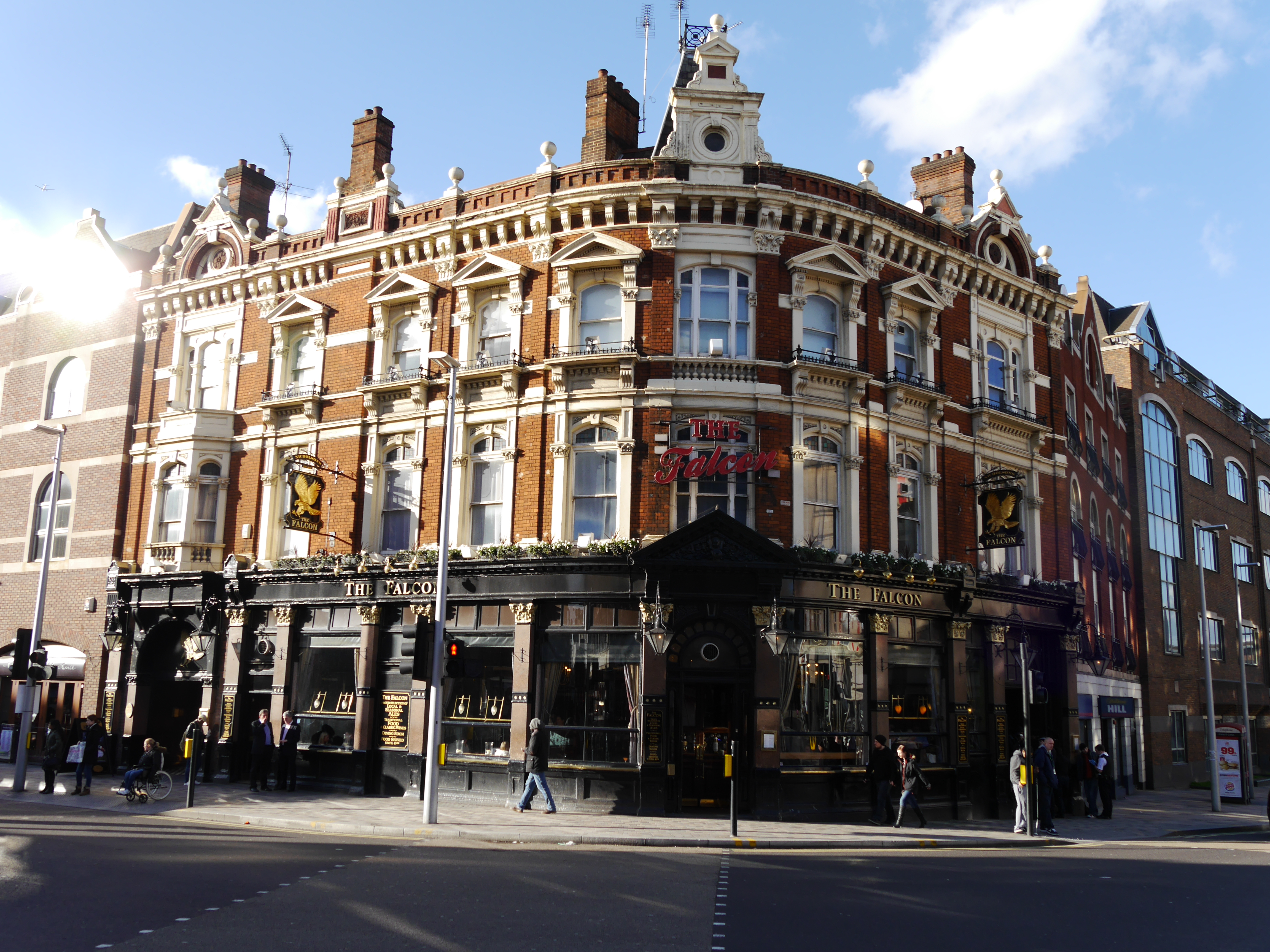 Falcon, Clapham Junction